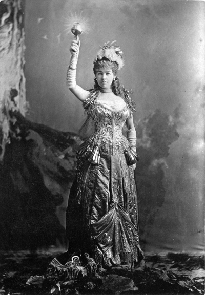 Mrs. Cornelius Vanderbilt aka Alice Claypoole Gwynne as 'Electric Light'. Gown created by Charles Frederick Worth.